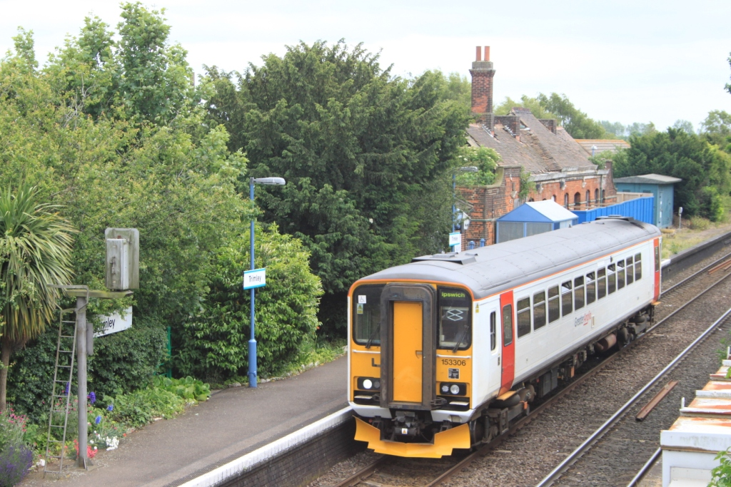 Greater Anglia's 153306 calls at Trimley station while working a service from Felixstowe to Ipswich.